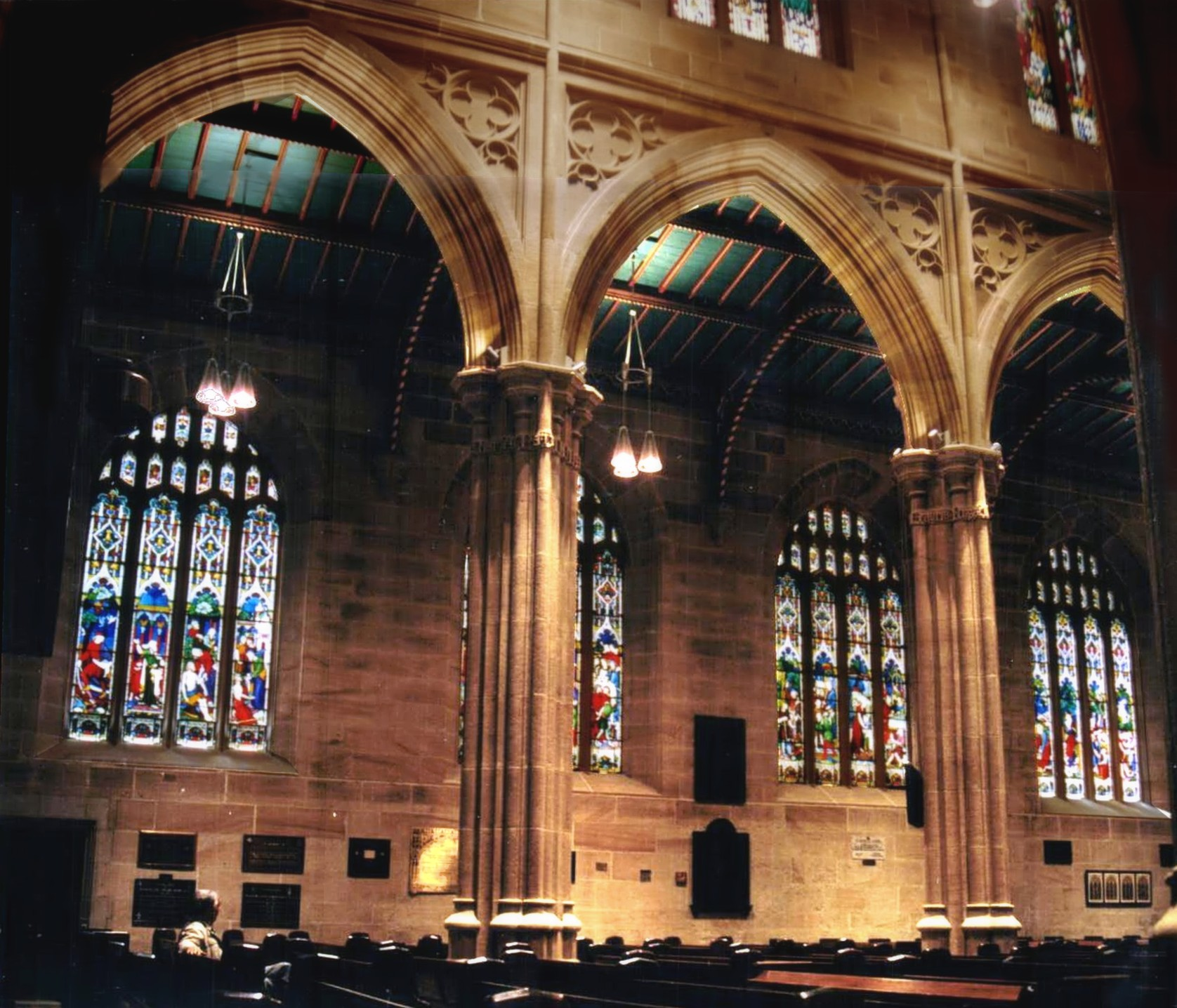 Sydney, St. Andrew's Anglican Cathedral, across the nave, showing windows, arcade. assembled from two photos.